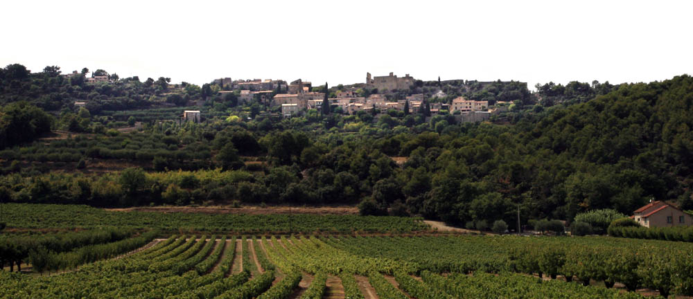 the village of Crestet - Vaucluse, France